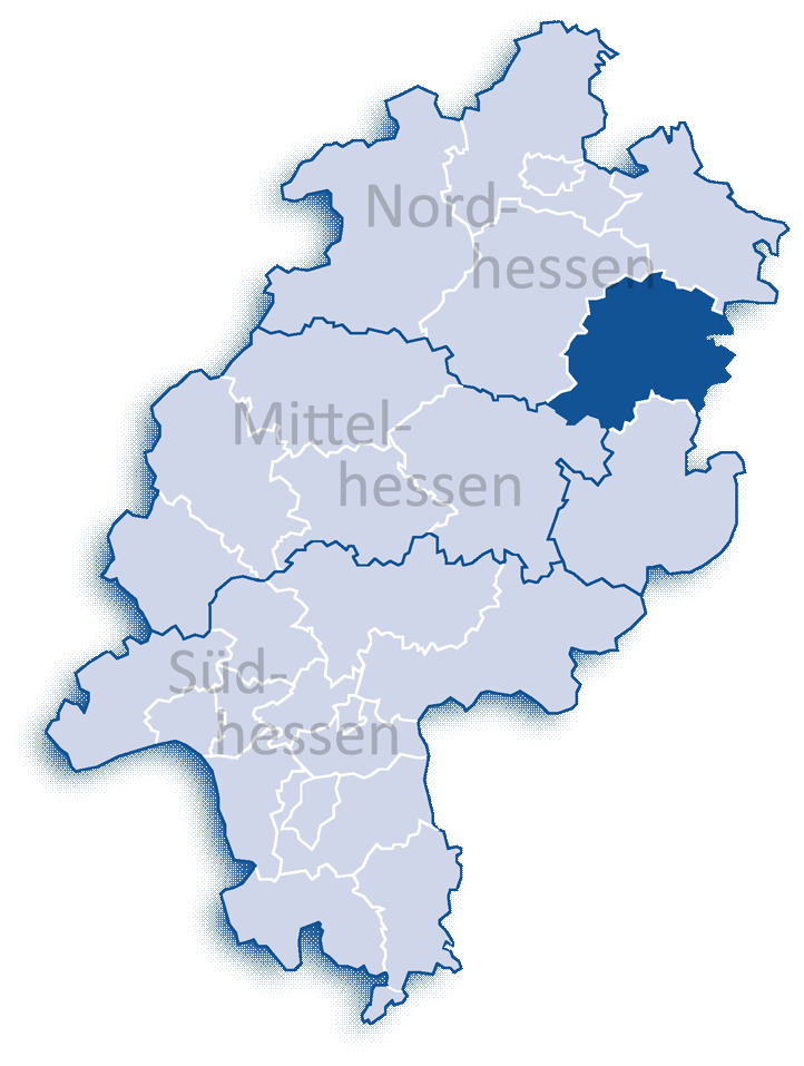 The map shows the district Hersfeld-Rotenburg. A district in Hesse